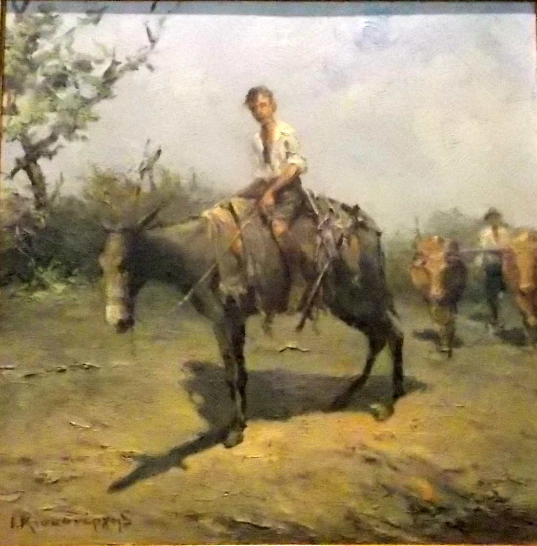 Ioannis Kissonerghis - Peasant boy (oil on wood)